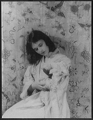 Title: Portrait of Gloria Vanderbilt Abstract/medium: 1 photographic print : gelatin silver.